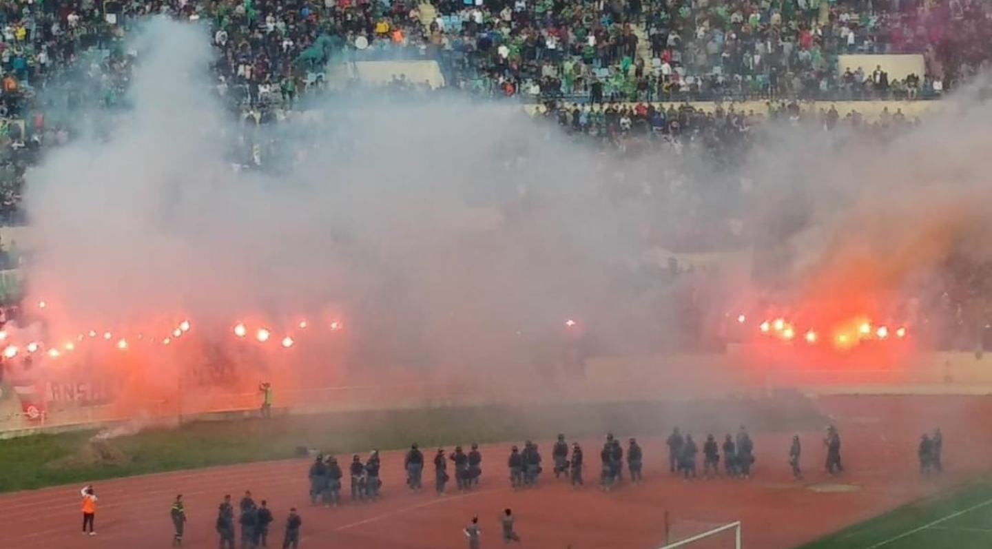 Ansar fans and Ultras during the 2017–18 Lebanese FA Cup match against Nejmeh.